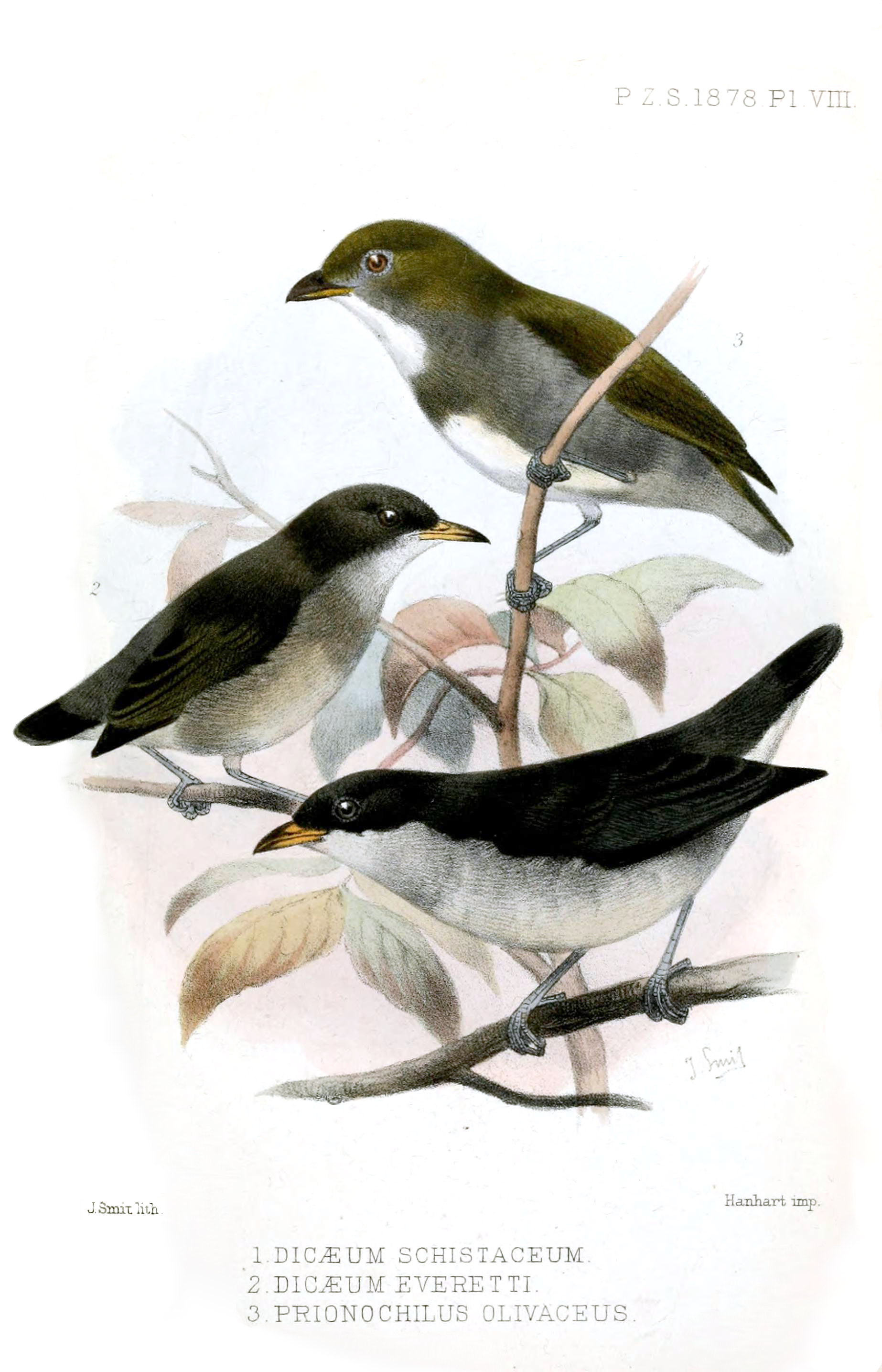 Olive-backed Flowerpecker, adult female (top); Buzzing Flowerpecker, adult male (center); Red-striped Flowerpecker, adult male (bottom)